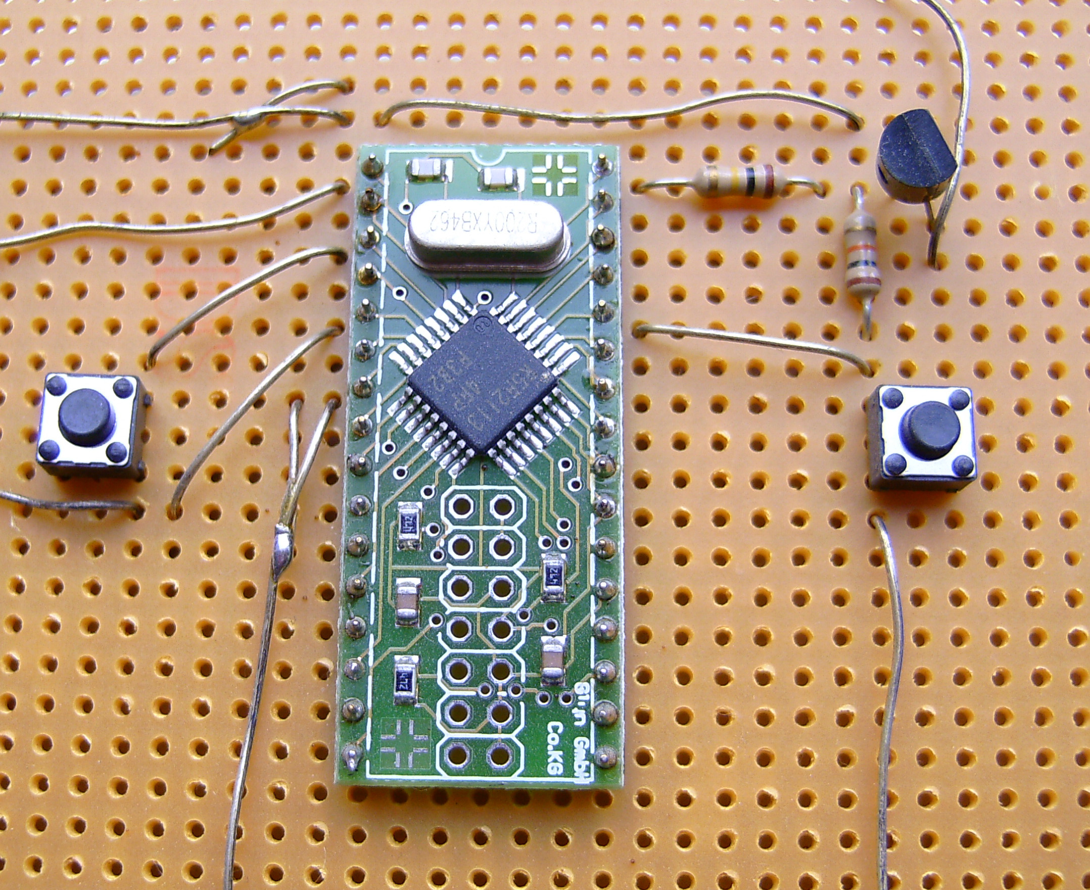 R8C/TINY 16-Bit Microcontroller in a circuit